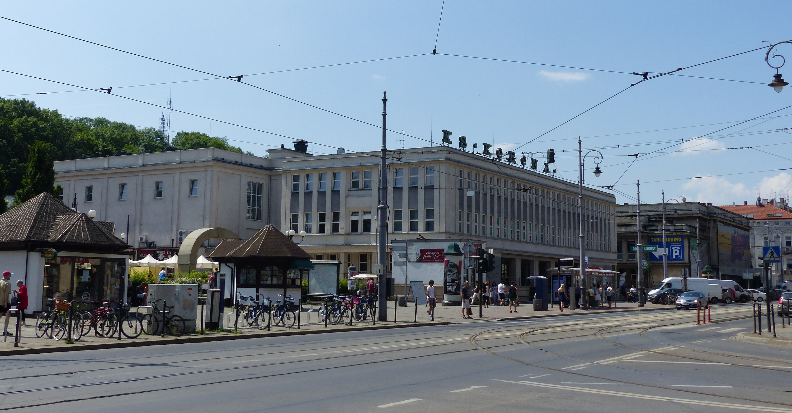 sports hall, swimming pool and basen of KS Korona in Kraków, Kalwaryjska street 9-15